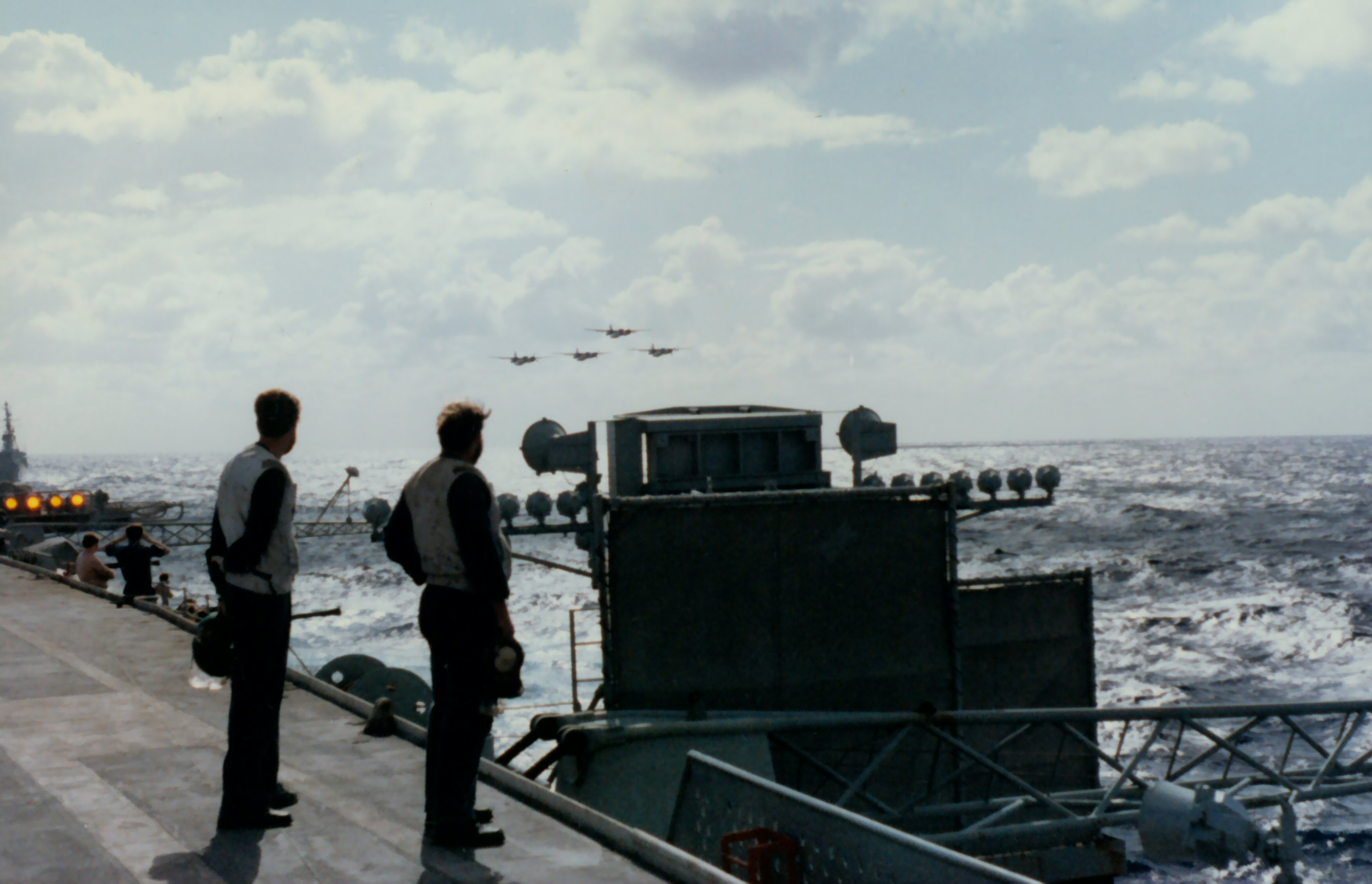 4 Trackers of 816 squadron fly past HMAS Melbourne. In this photograoph, the aircraft are visible just above the mirror landing aid. The 4 orange lights at the left of the photo are part of the set of lights projected into the mirror to provide glideslope information for approaching when landing on the carrier.